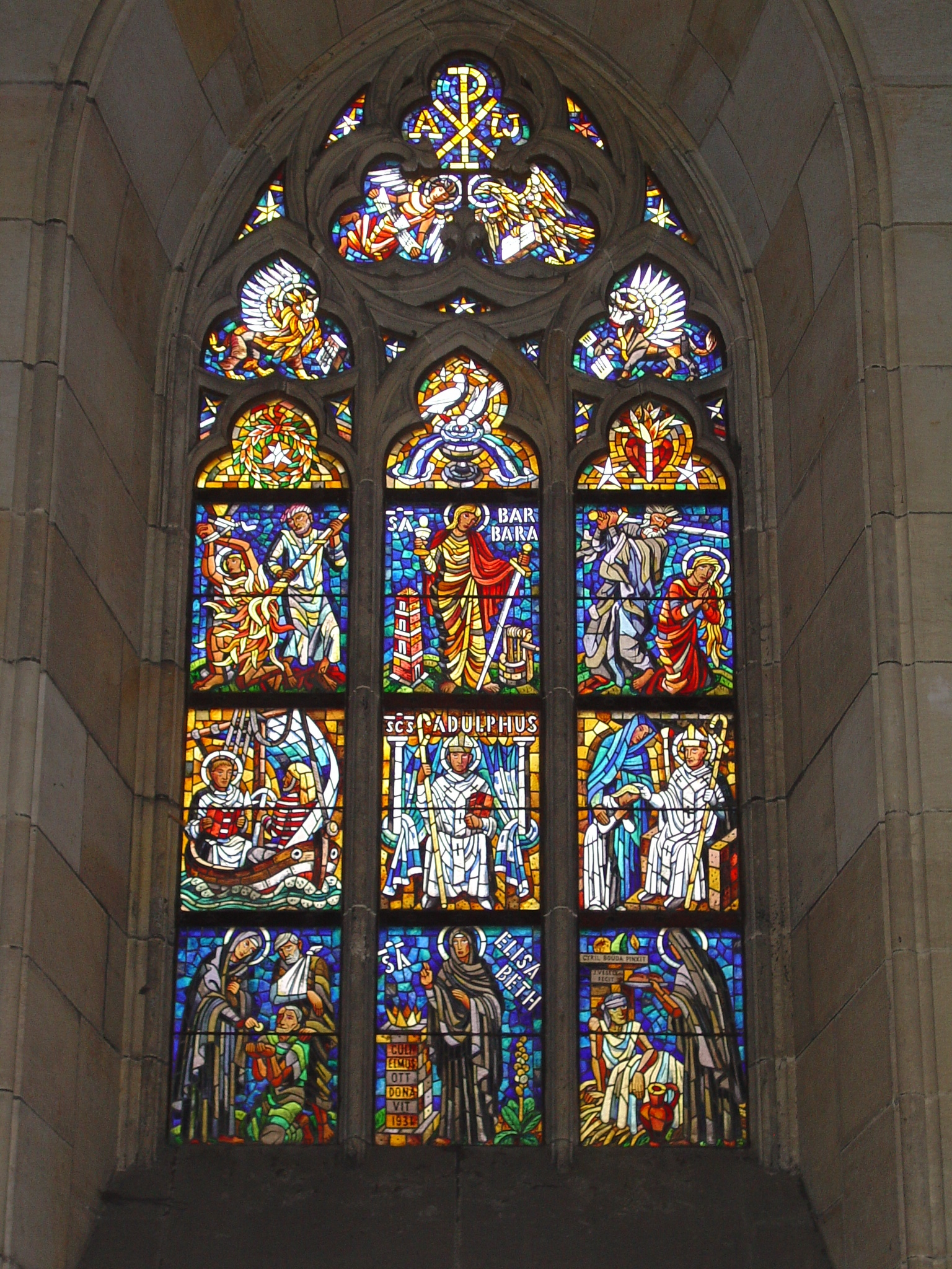 Saint Vitus Catherdral Inside